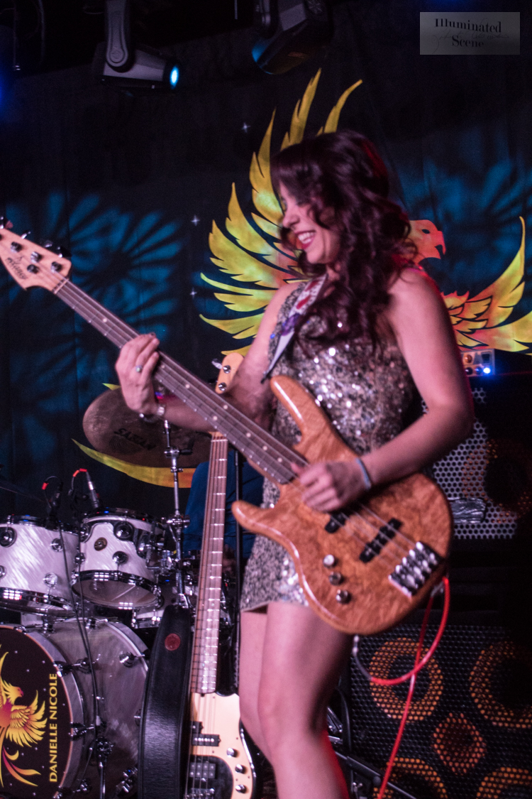 Danielle Nicole Band at Redstone Room, River Music Experience, Davenport, IA 4/6/18